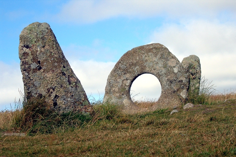 Men-an-Tol - Megalith - Cornwall - UK